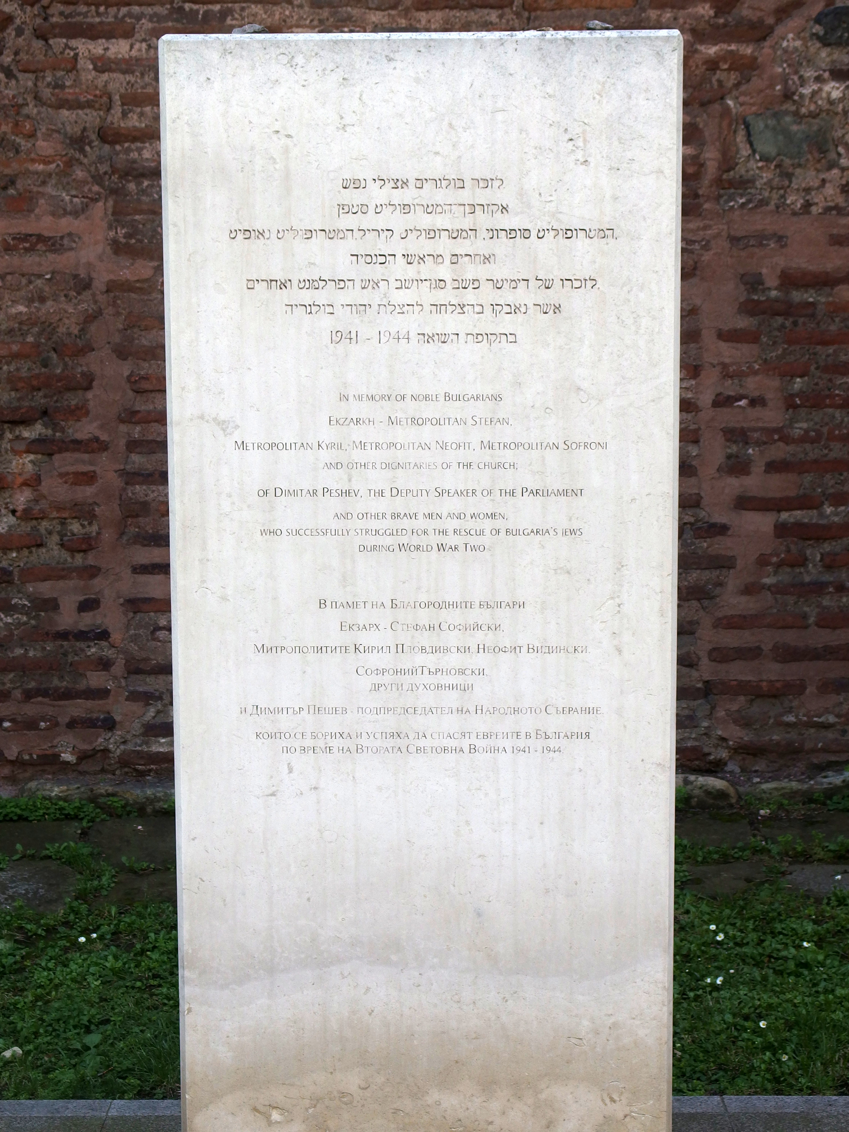 2014-06-14 in Sofia.